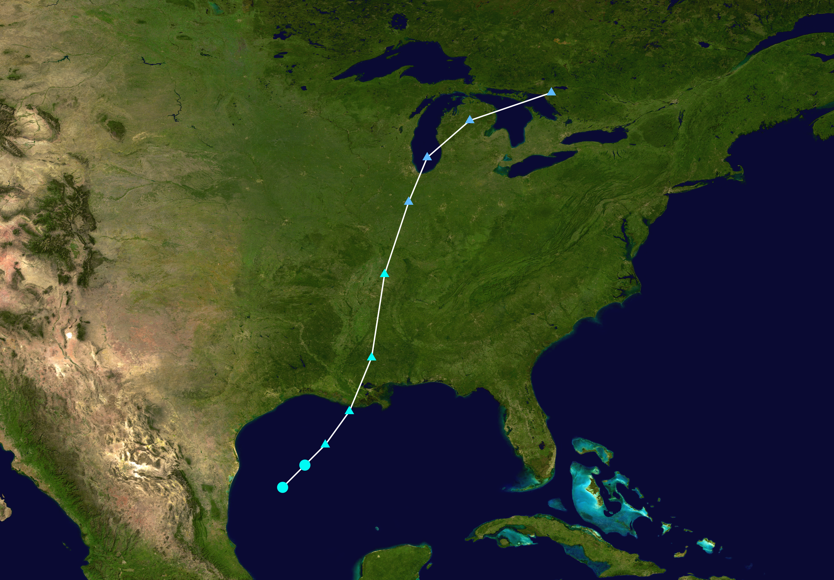 Track map of Tropical Storm Olga of the 2019 Atlantic hurricane season. The points show the location of the storm at 6-hour intervals. The colour represents the storm's maximum sustained wind speeds as classified in the Saffir–Simpson scale (see below), and the shape of the data points represent the nature of the storm, according to the legend below. Saffir–Simpson scale Tropical depression≤38 mph≤62 km/h Category 3111–129 mph178–208 km/h Tropical storm39–73 mph63–118 km/h Category 4130–156 mph209–251 km/h Category 174–95 mph119–153 km/h Category 5≥157 mph≥252 km/h Category 296–110 mph154–177 km/h Unknown Storm type Tropical cyclone Subtropical cyclone Extratropical cyclone / Remnant low / Tropical disturbance / Monsoon depression